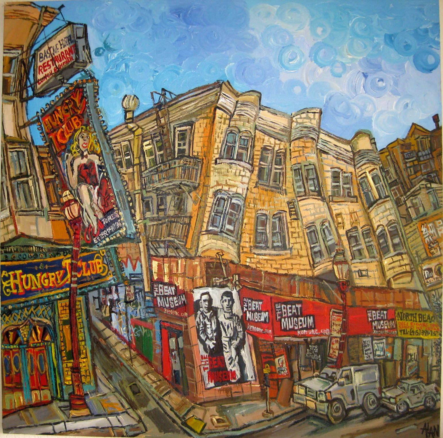 A painting of the Beat Museum on Broadway Street in San Francisco, Ca, painted by Alan Streets